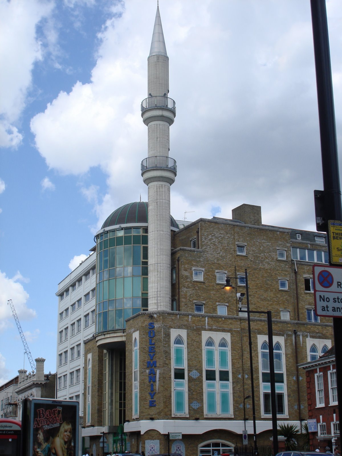 The construction of Suleymaniye mosque began in 1995 and was finally opened to the public in October 1999. With a total floor space of 8000 square meters, the total capacity of its Ottoman style mosque is 3000 people. The mosque which is decorated in a typical Turkish calligraphy is one part of the whole complex, other parts include a conference and wedding hall, Guest rooms, class rooms, and funeral service facilities as well as accomodation for the staff.